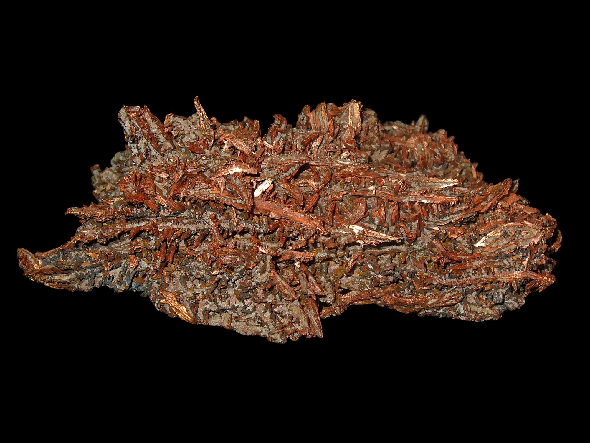 Copper, Cu; Staatliches Museum für Naturkunde Karlsruhe, Germany. Used in homeopathy as remedy: Cuprum metallicum (Cupr.)